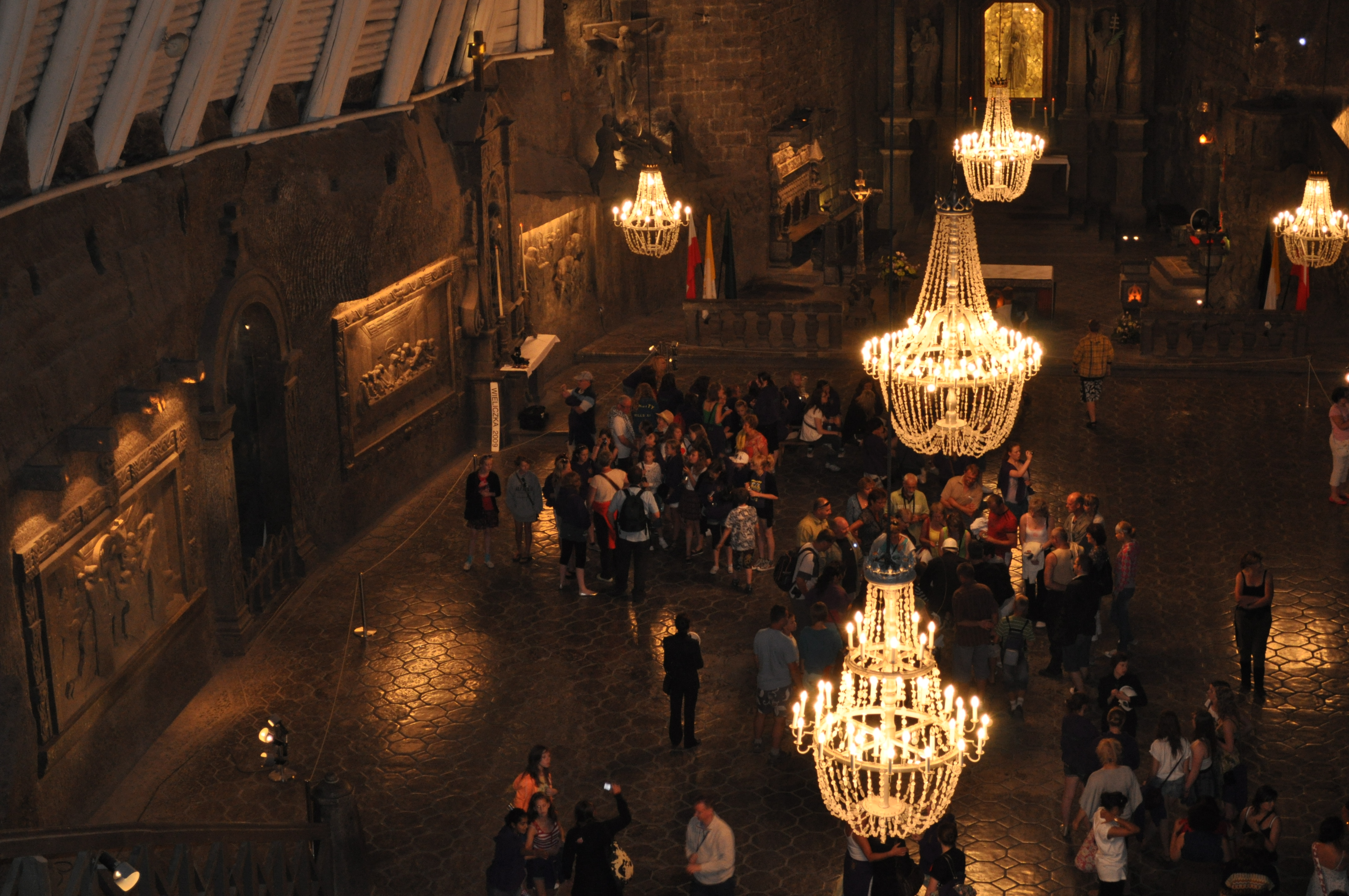 Wieliczka(Poland). Salt Mine.St Kinga's Chapel